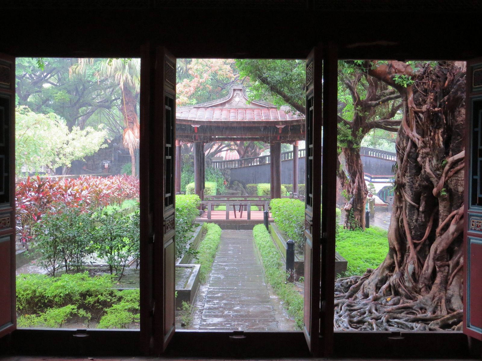 The Lin's Family Manshion and Garden.